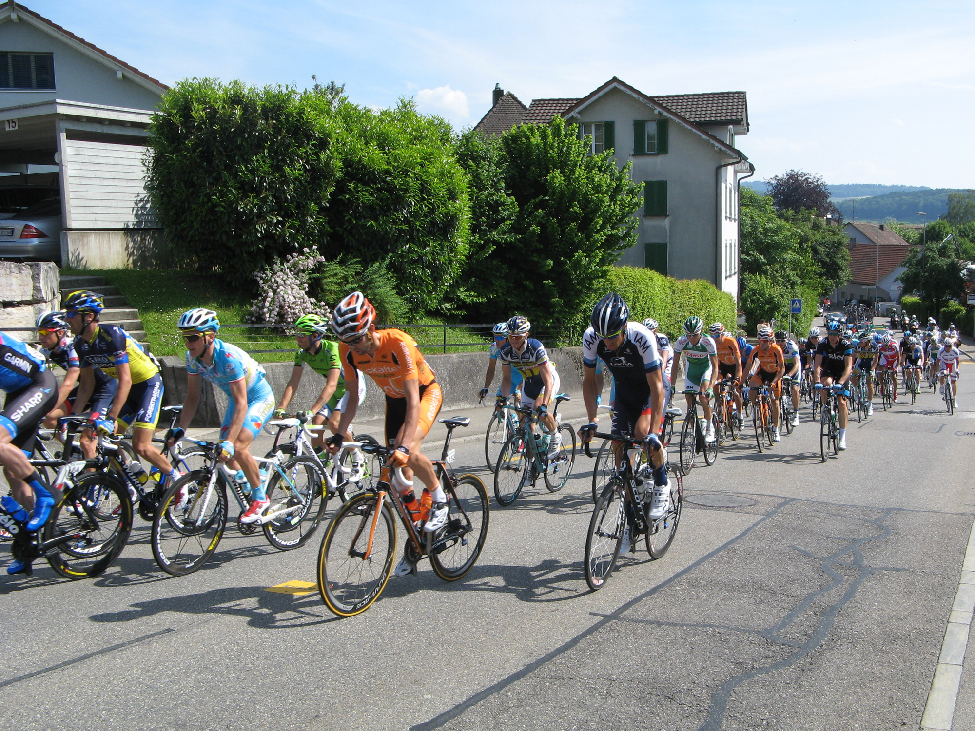 Tour de Suisse 2013, 5th stage: The peloton passing through Wohlen in the canton of Aargau.